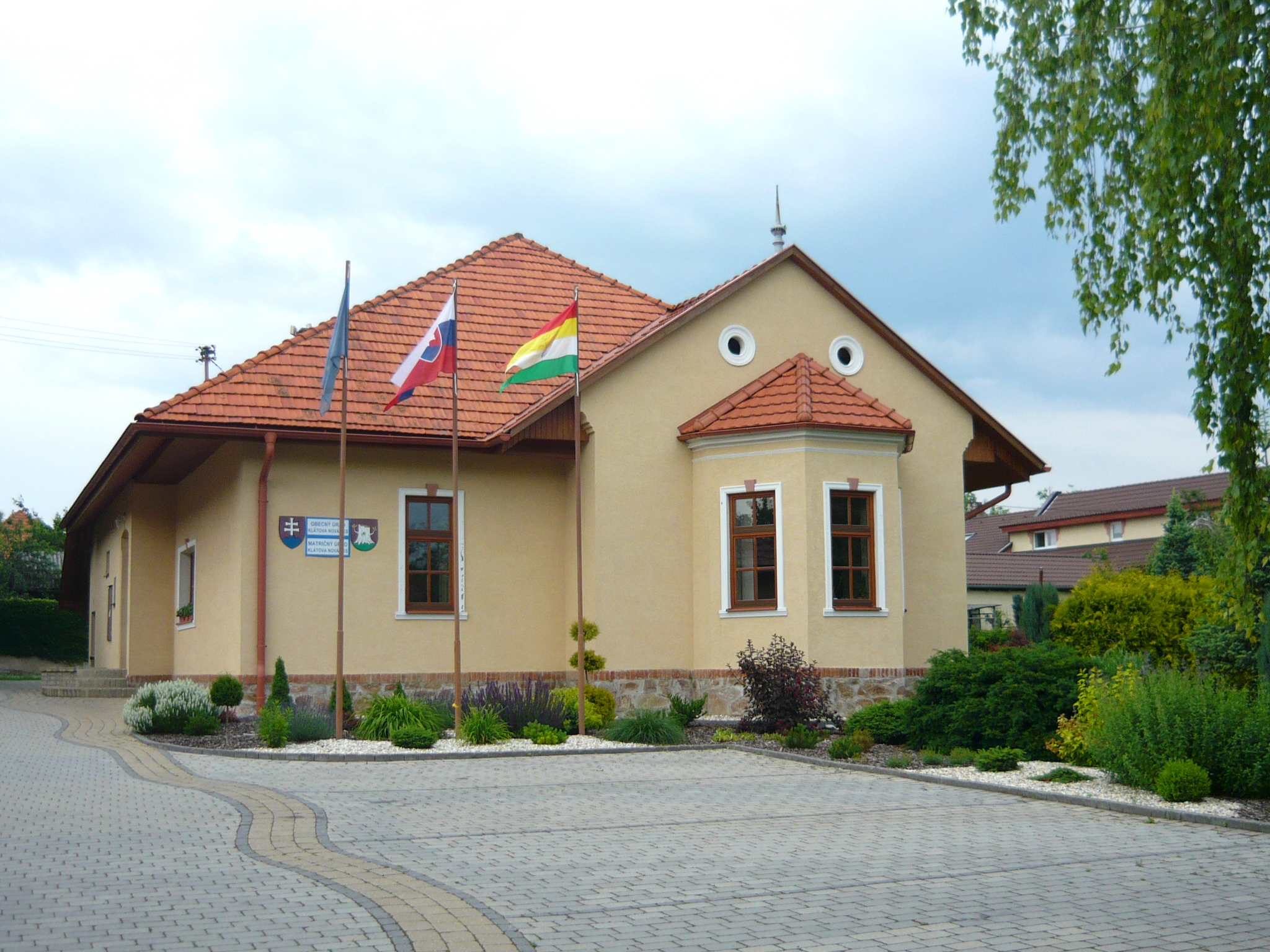 The town hall of Klátova Nová Ves, Slovakia.